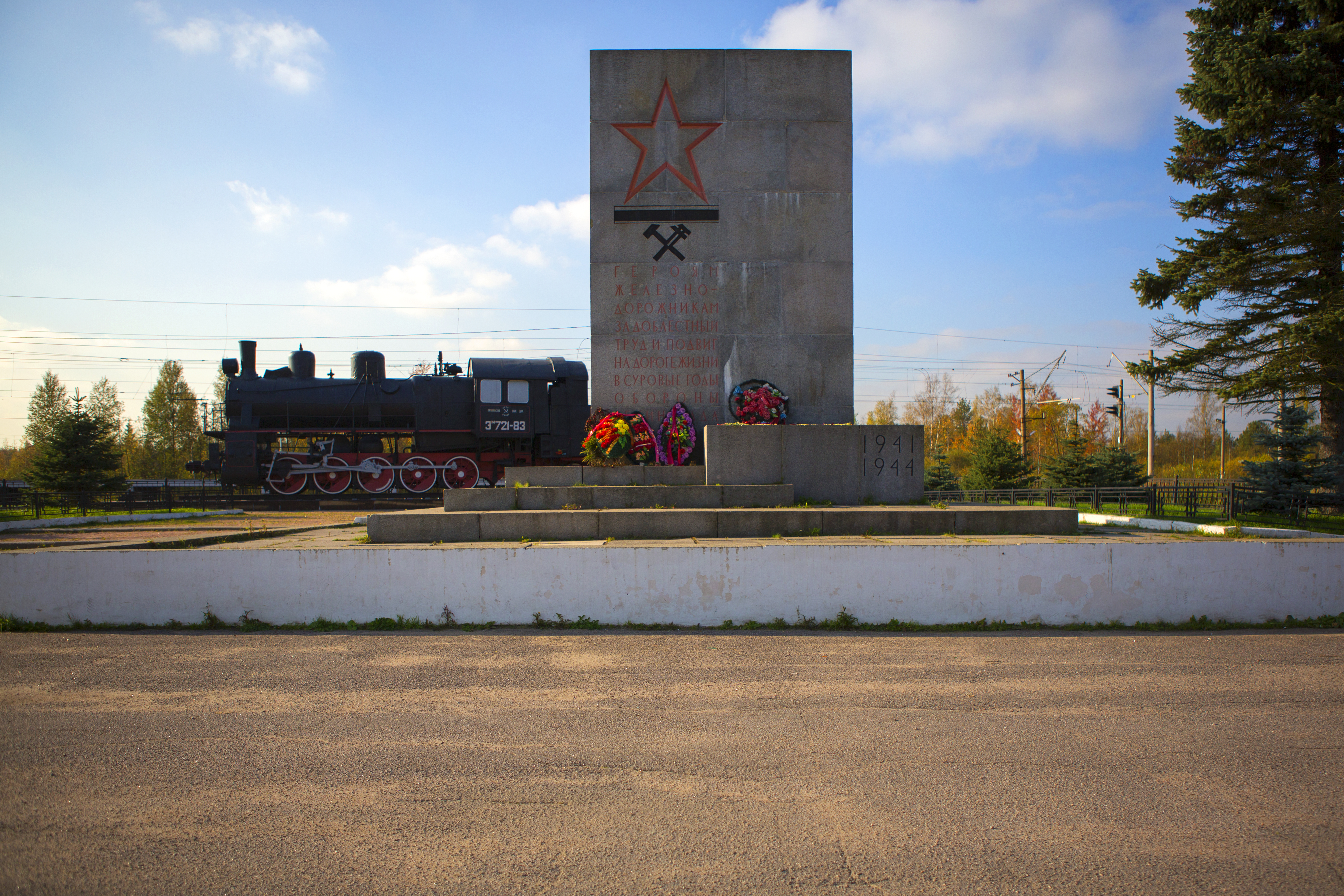 Leningrad Oblast